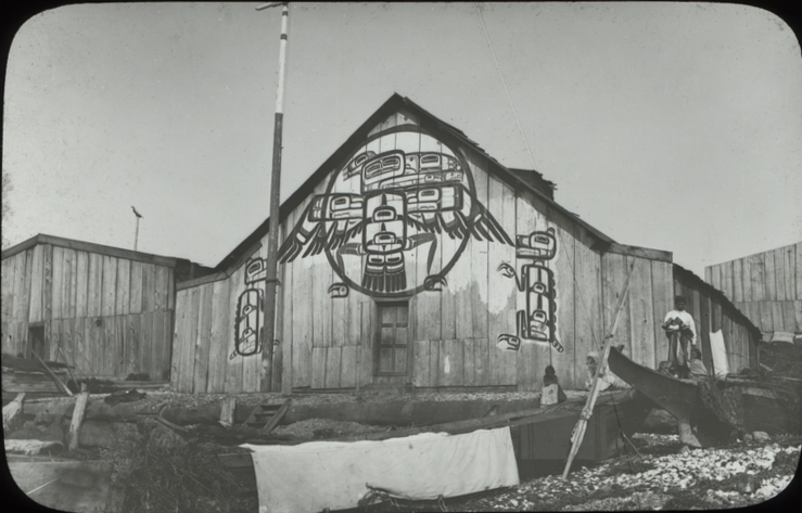 Kwakwaka'wakw (Kwakiutl) house decorated with three designs, Fort Rupert Indian Reserve 1, British Columbia